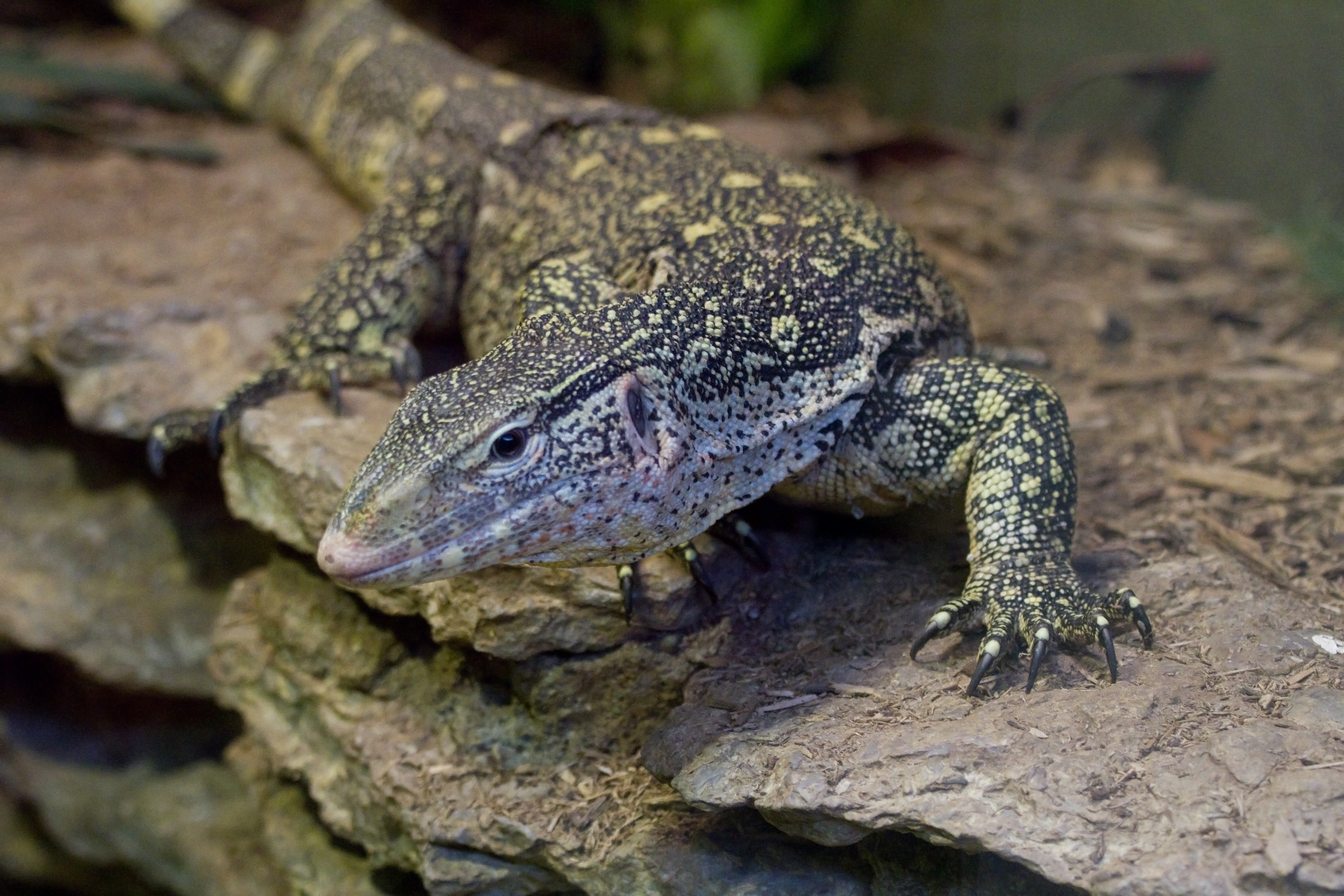 Ornate monitor at the Cincinnat Zoo. Photo by Greg Hume